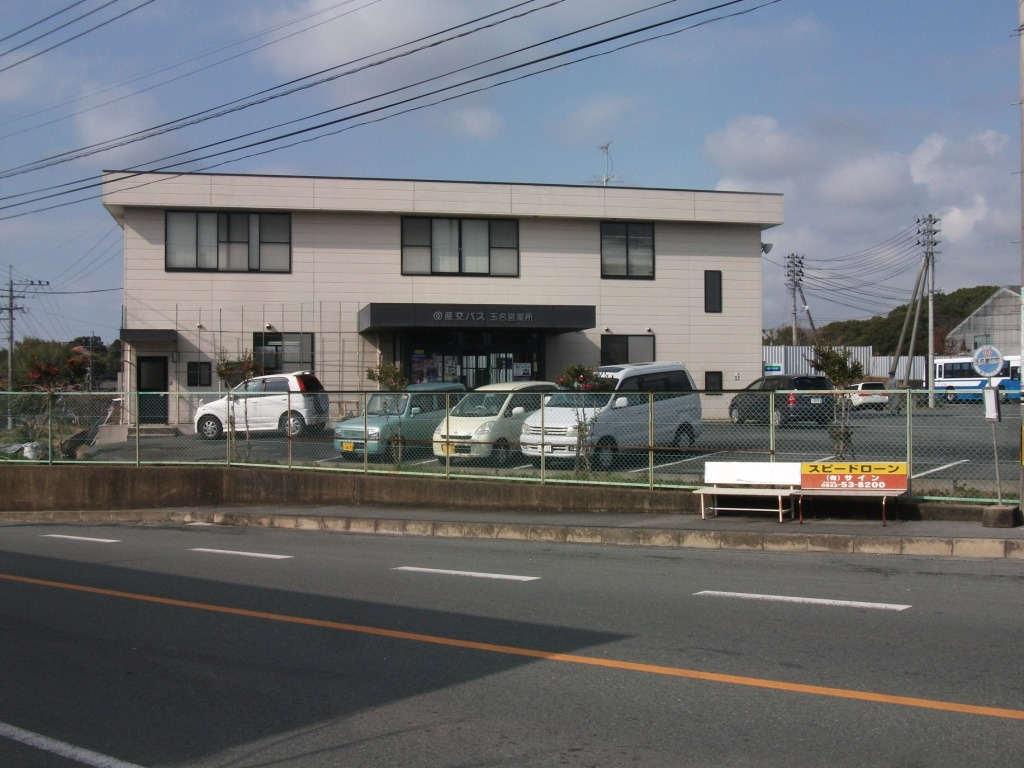 Sanko Bus Tamana Depot